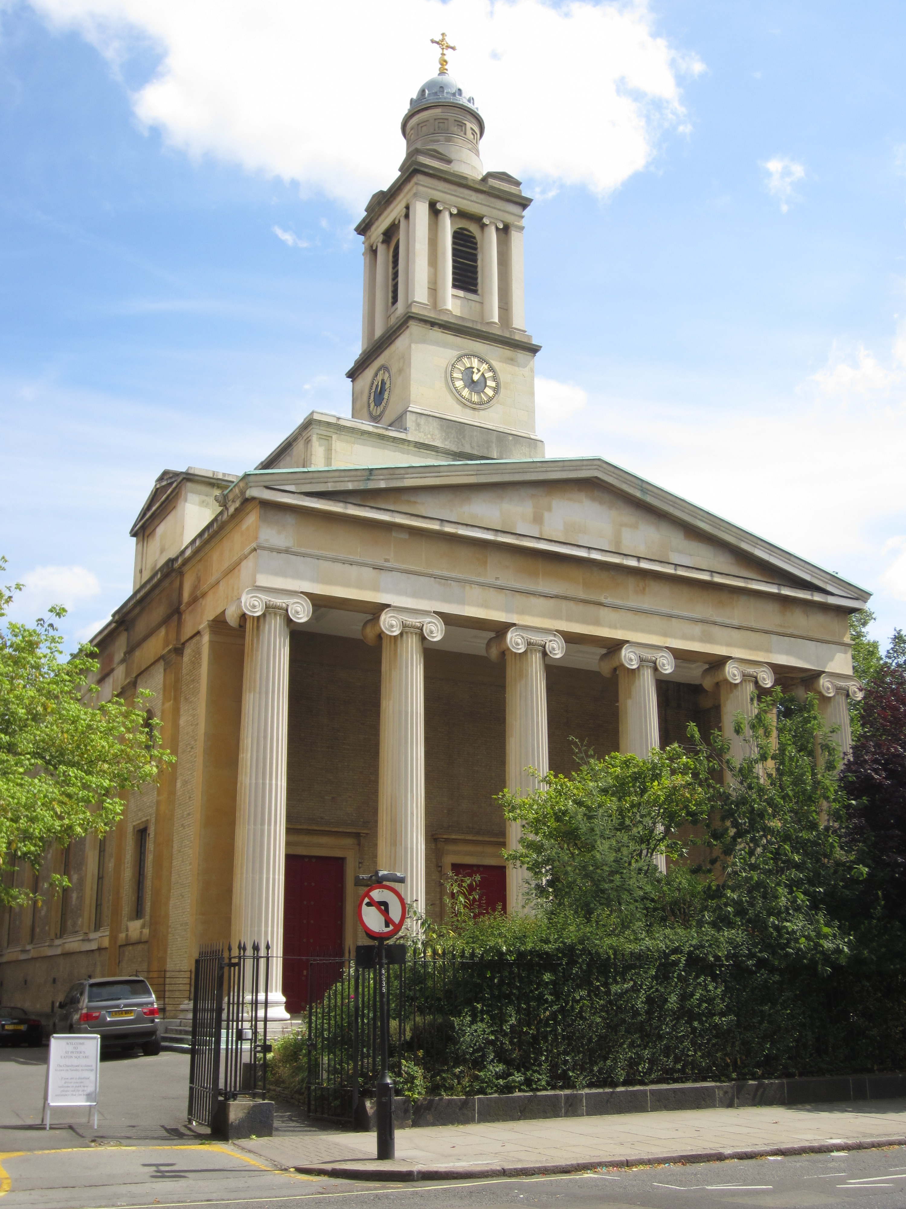 St Peter's parish church, Eaton Square, London SW1, seen from the west